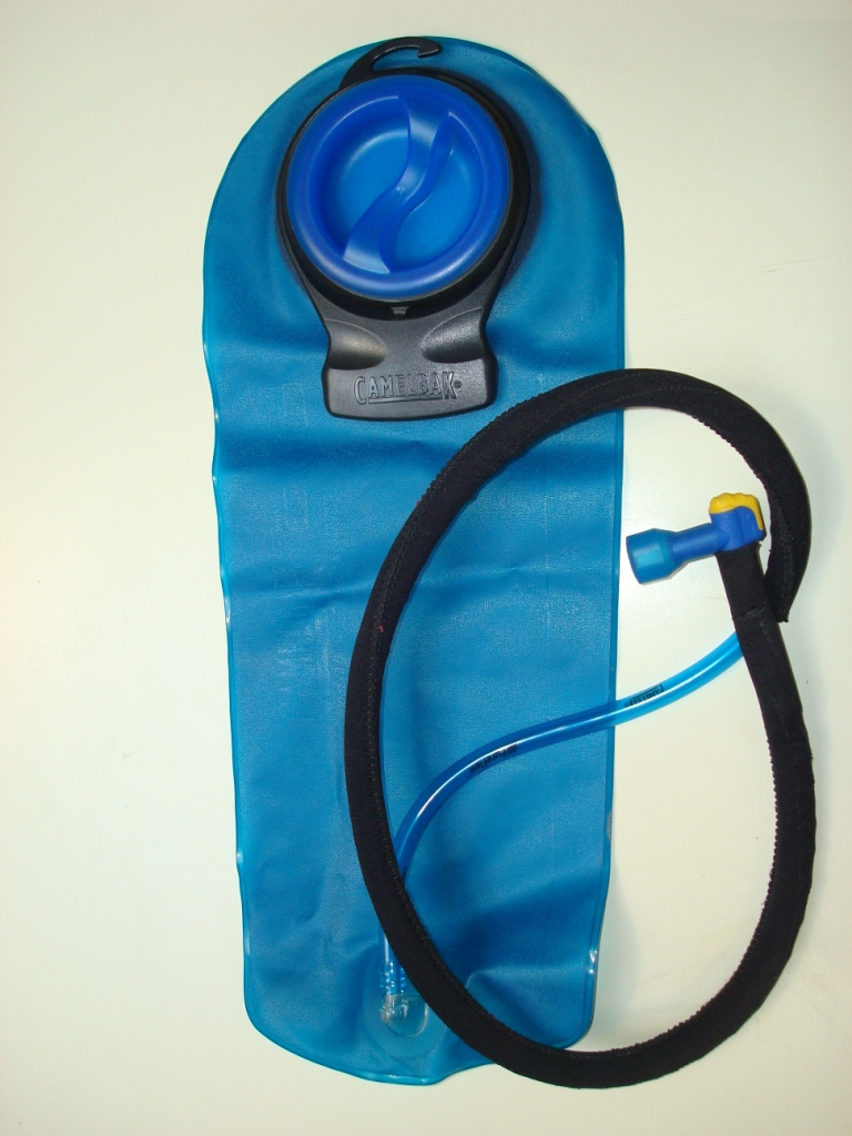 Example of hydration reservoir (a.k.a. CamelBak)